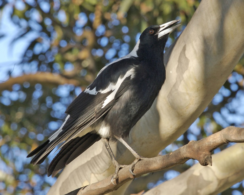 Australian Magpie Gymnorhina tibicen ssp Gymnorhina tibicen hypoleuca (white backed Magpie group) See pattern on back Melbourne, Australia 7th. August 2006 _Q0S8162